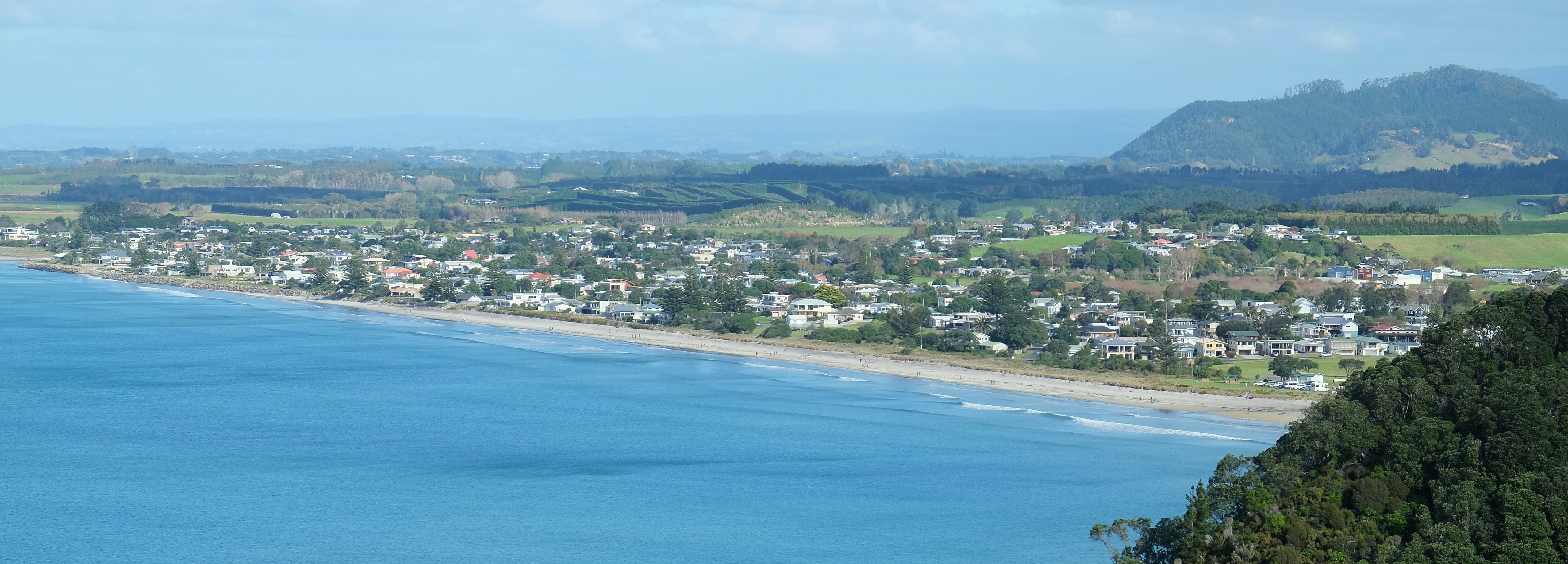 Waihi Beach, viewed from north on the coastal walk to Orokawa Bay